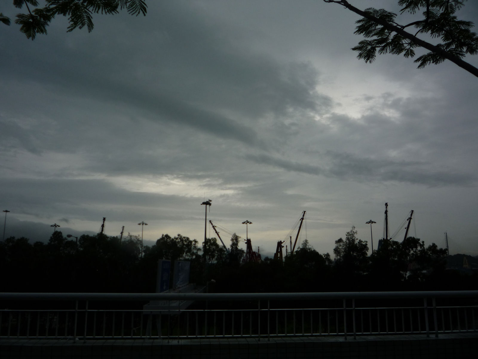 A cloudy day